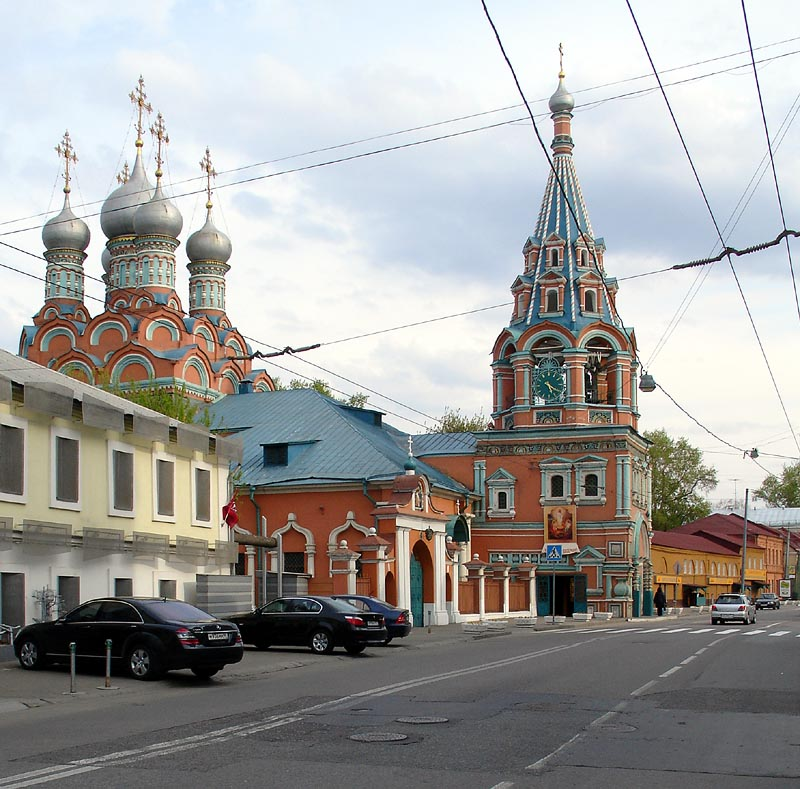 St.Gregory of Nyssa Church, 1667-1679, Bolshaya Polyanka Street, Moscow